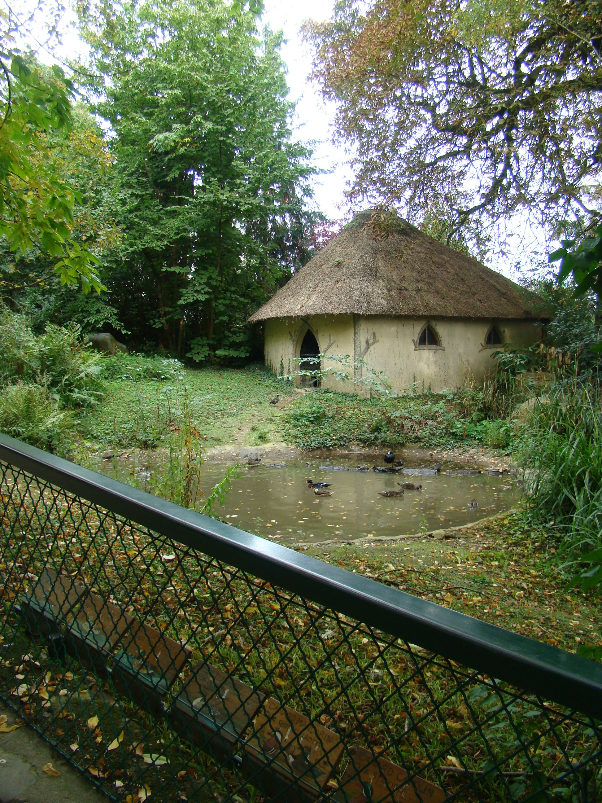 Ducks' enclosure in Park of Thabor in Rennes.